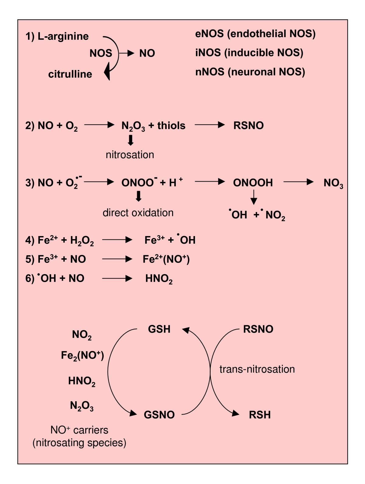 Reactions leading to generation of Nitric Oxide and Reactive Nitrogen Species. Novo and Parola Fibrogenesis & Tissue Repair 2008 1:5